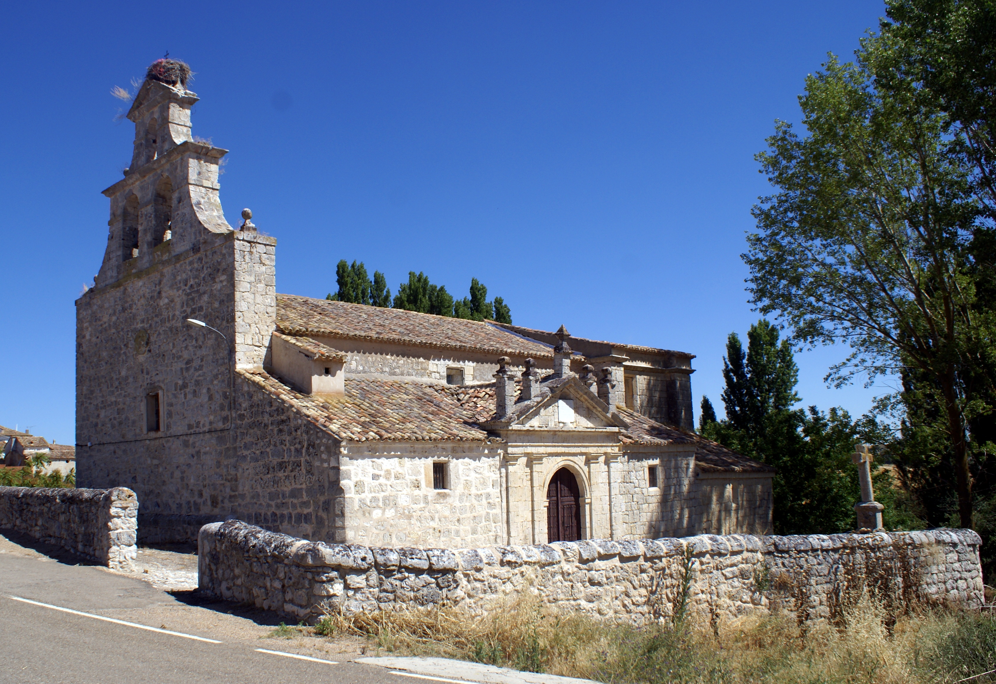 Church of San Pelayo in Barruelo del Valle, Valladolid, Spain.